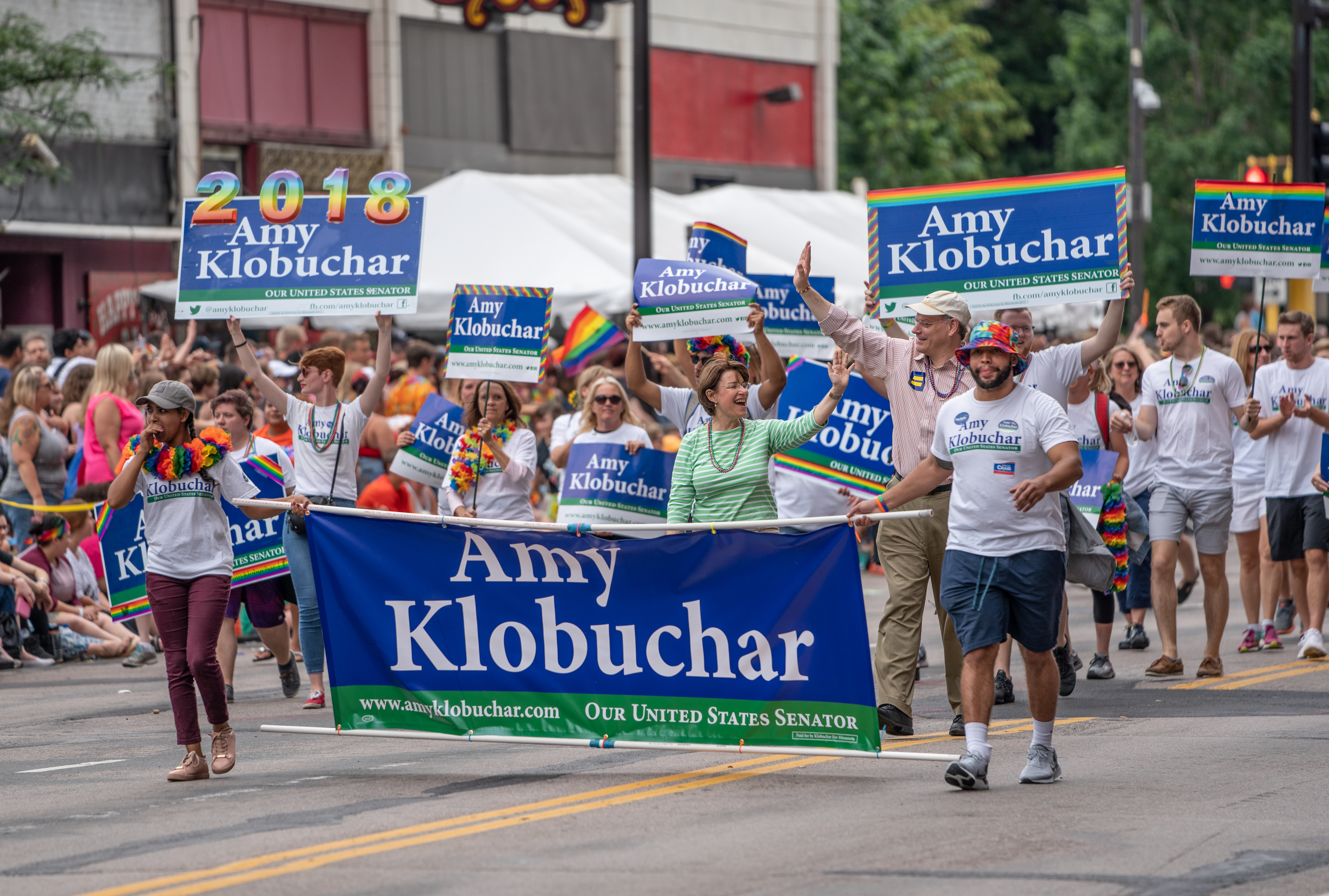 Twin Cities Pride Parade in Downtown Minneapolis, Minnesota, on June 24, 2018.